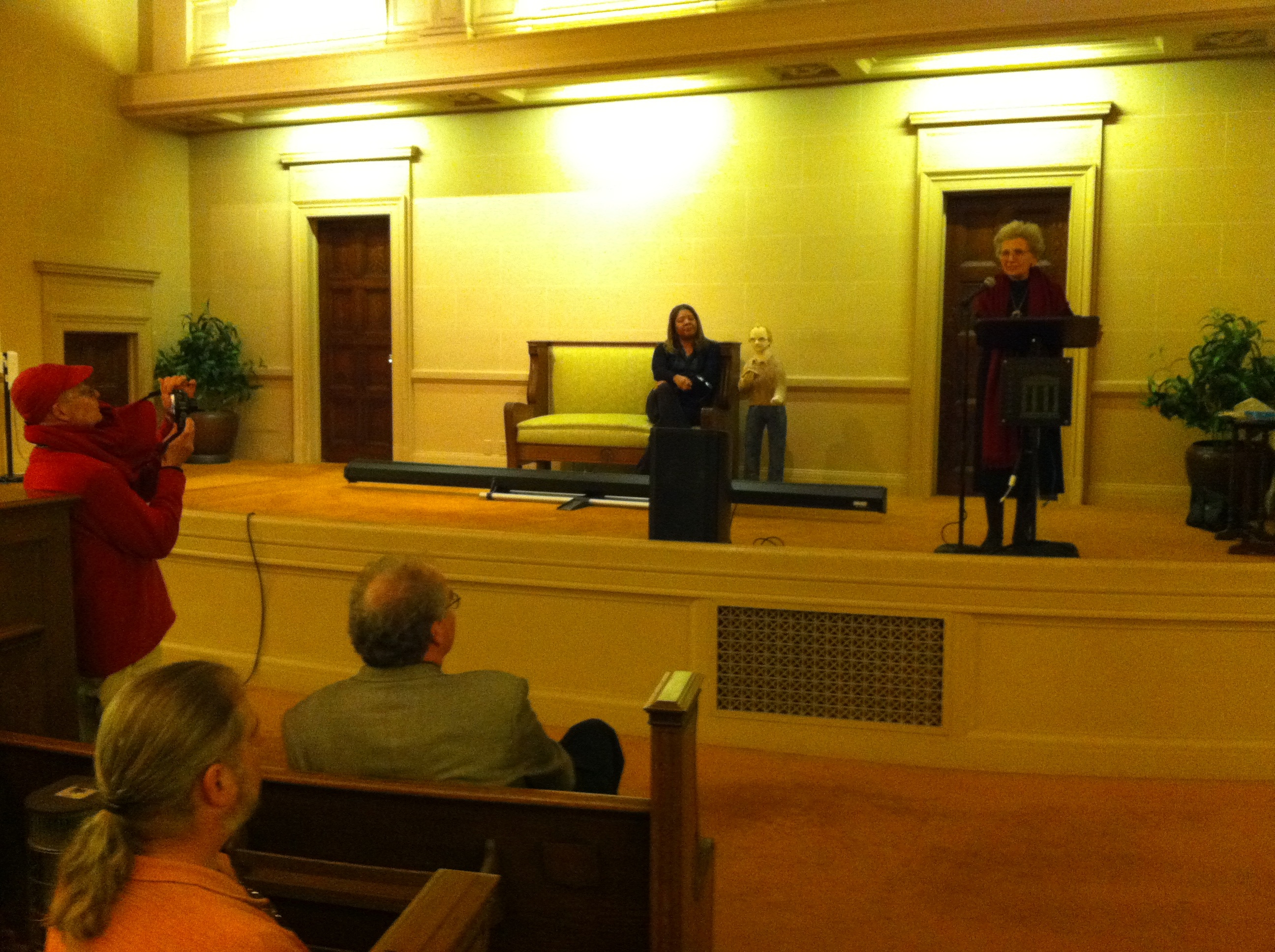 For successfully resisting a National Security Letter requesting a library patron's information